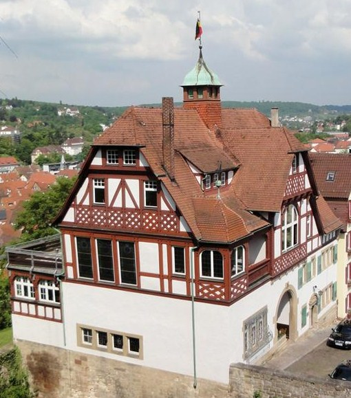 Roigelhaus in Tübingen (Germany), built in 1904 by archictect Paul Schmohl